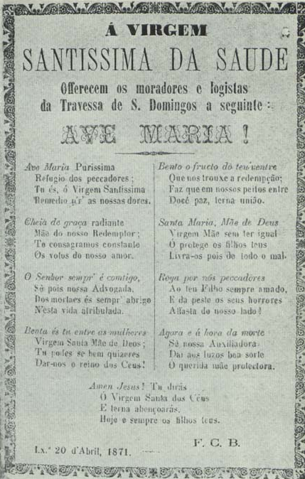 Song sheet for the Procession of Our Lady of Good Health, in Lisbon, 1871.